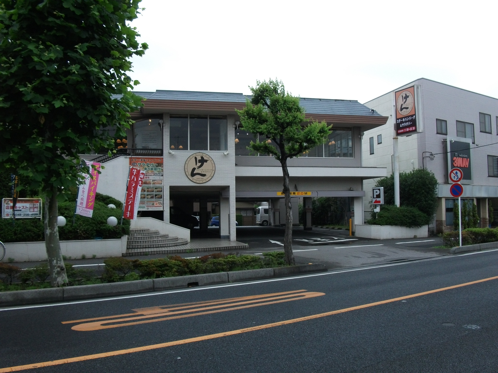 M'GRANT FOOD SERVICE "KEN" (Kawaguchi,Saitama)